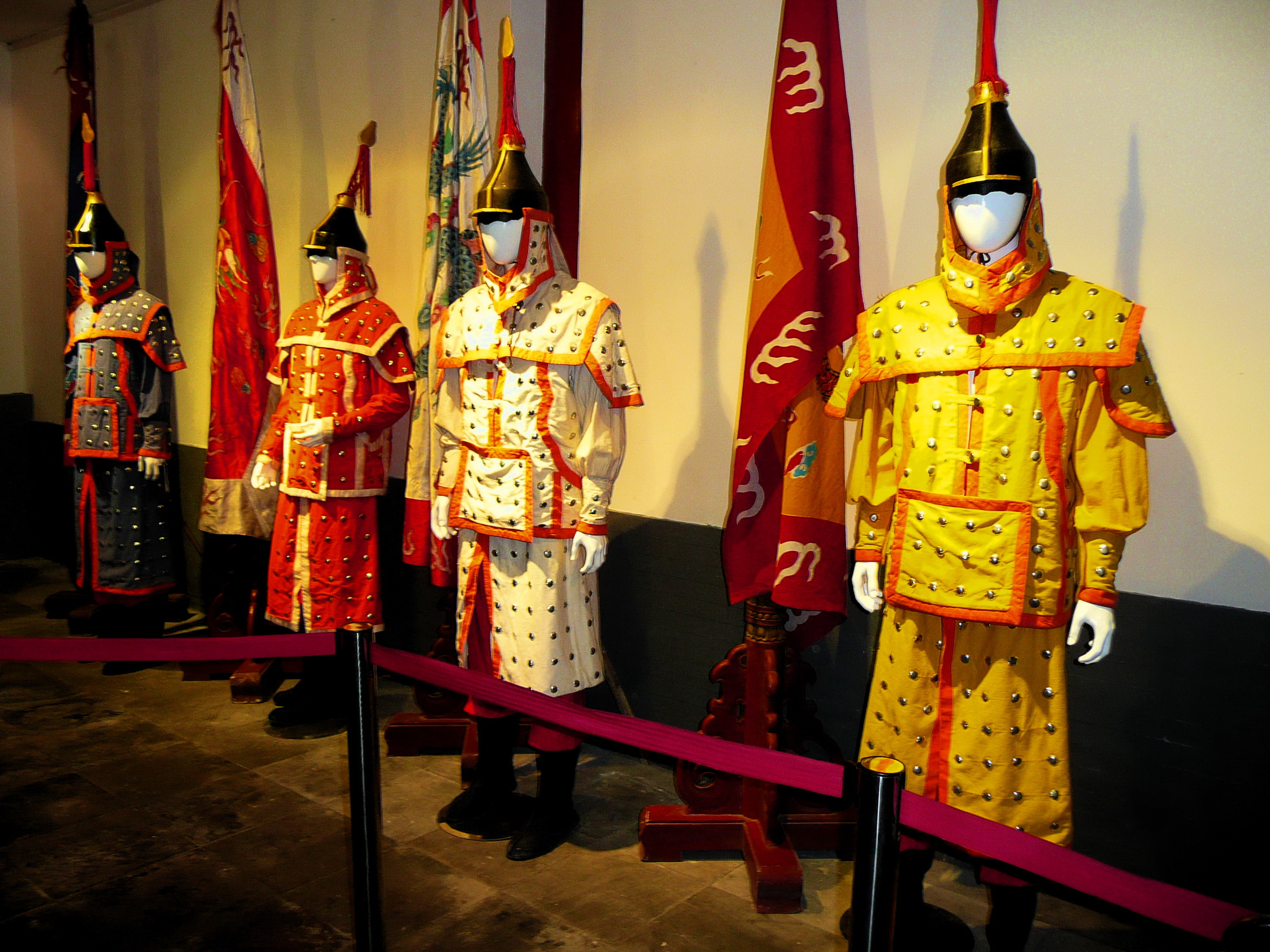 瀋陽故宮博物院 Museum of Shengyang Imperial Palace